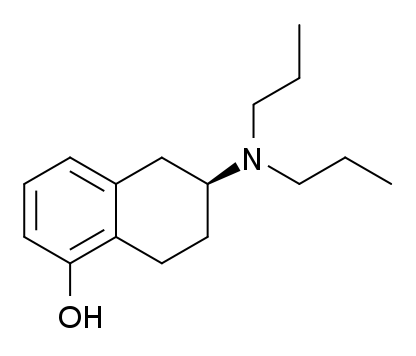 Structure of (S)-5-OH-DPAT